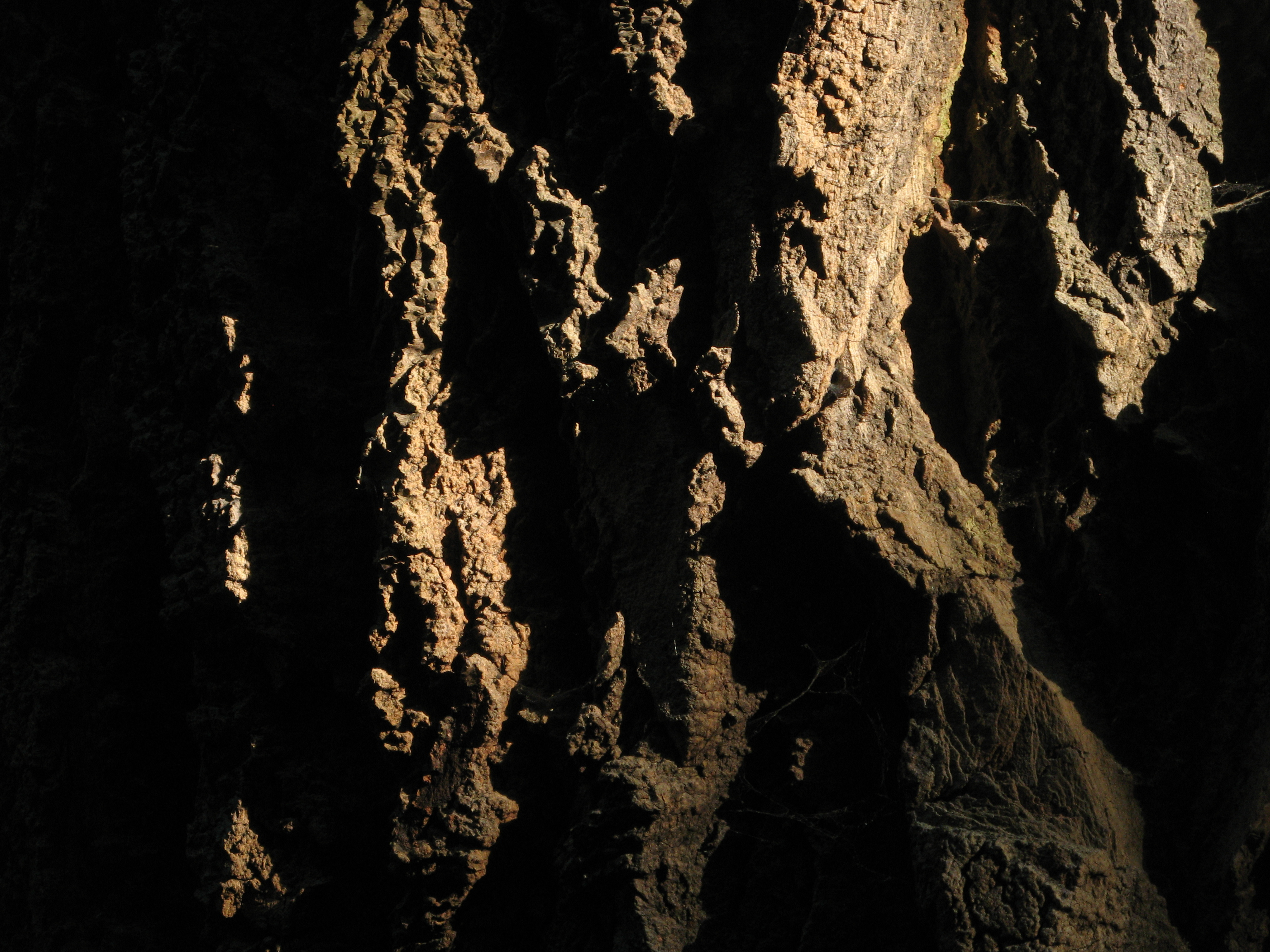 Populus alba at Botanical Garden Berlin, Germany